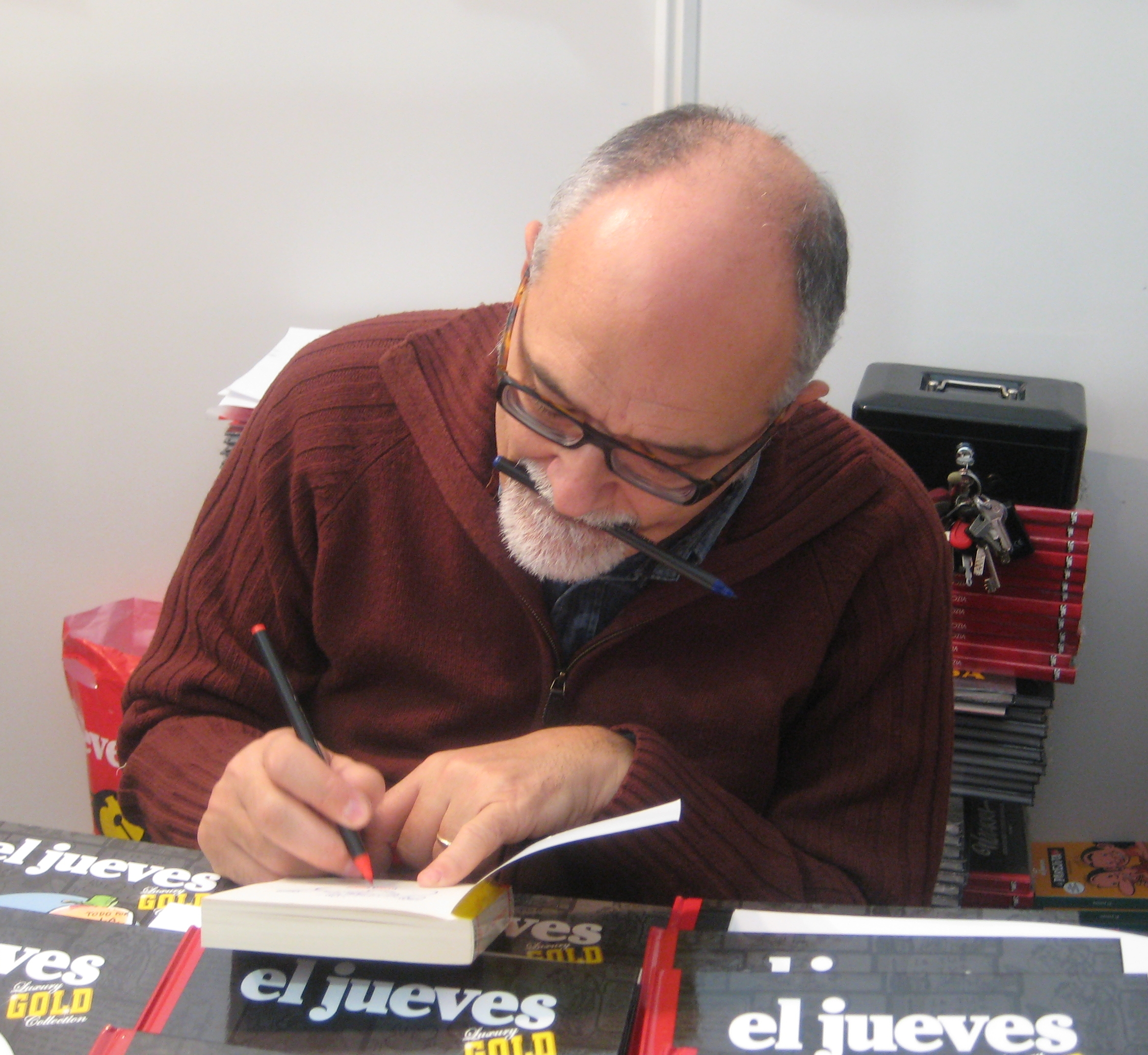 Spanish comic author Jose Luis Martin, at 2010 Getxo Comic Con.